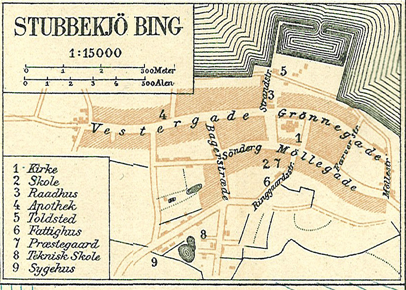 Map of Stubbekøbing on Falster in Denmark